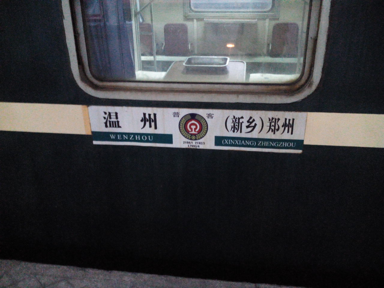 Taken at Jinhuaxi Station when D93 arrives.